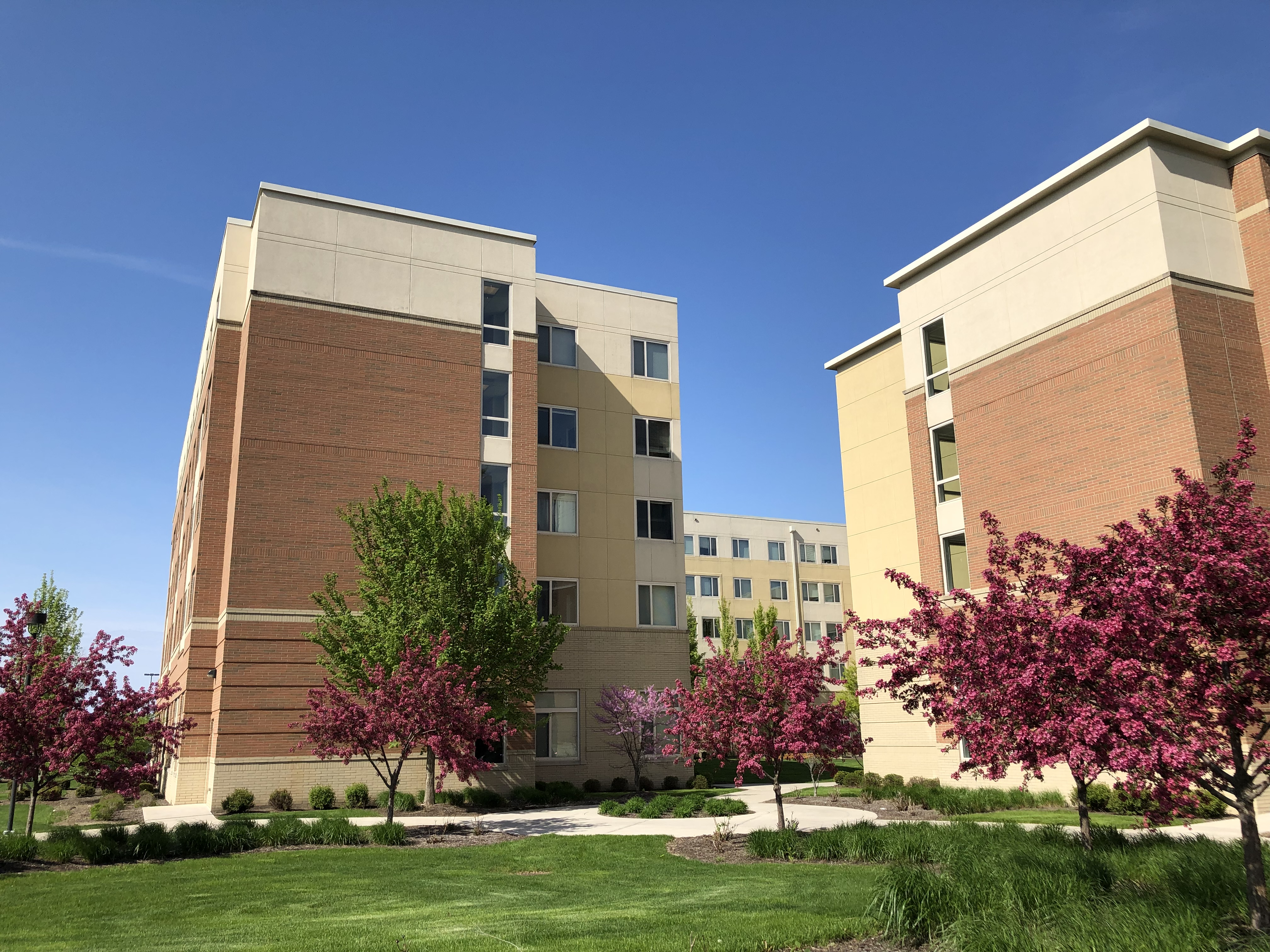 Falcon Heights at Bowling Green State University in the Spring